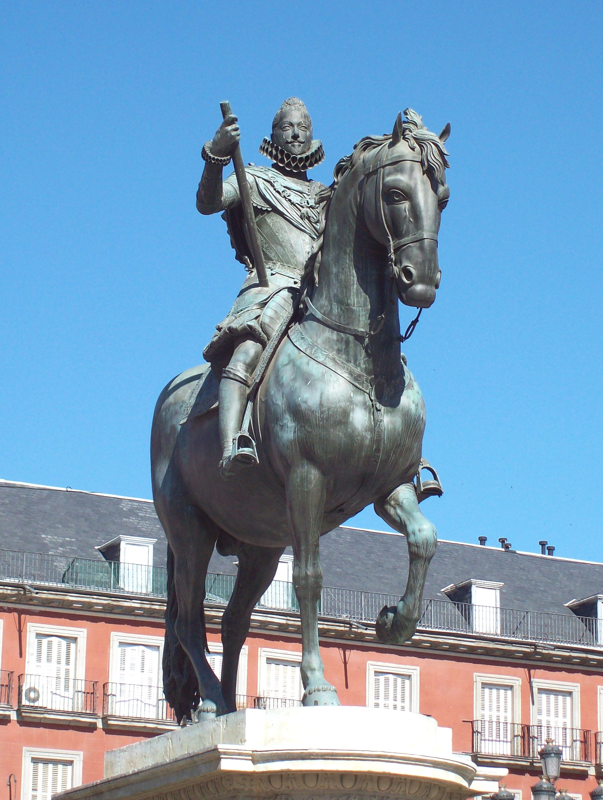 Bronze equestrian statue of Philip III of Spain in Madrid.